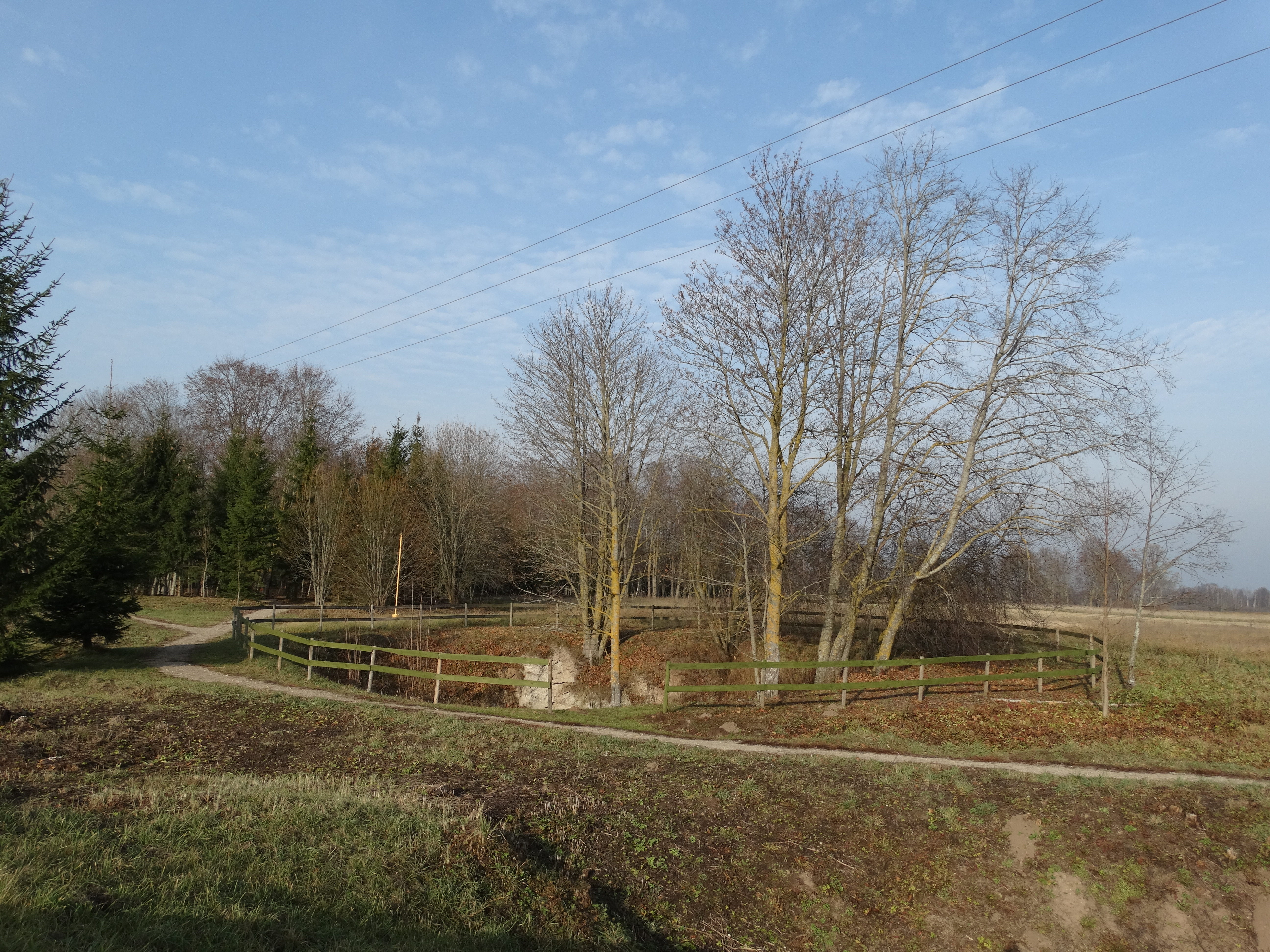 Lapės karst sinkhole, Biržai district, Lithuania